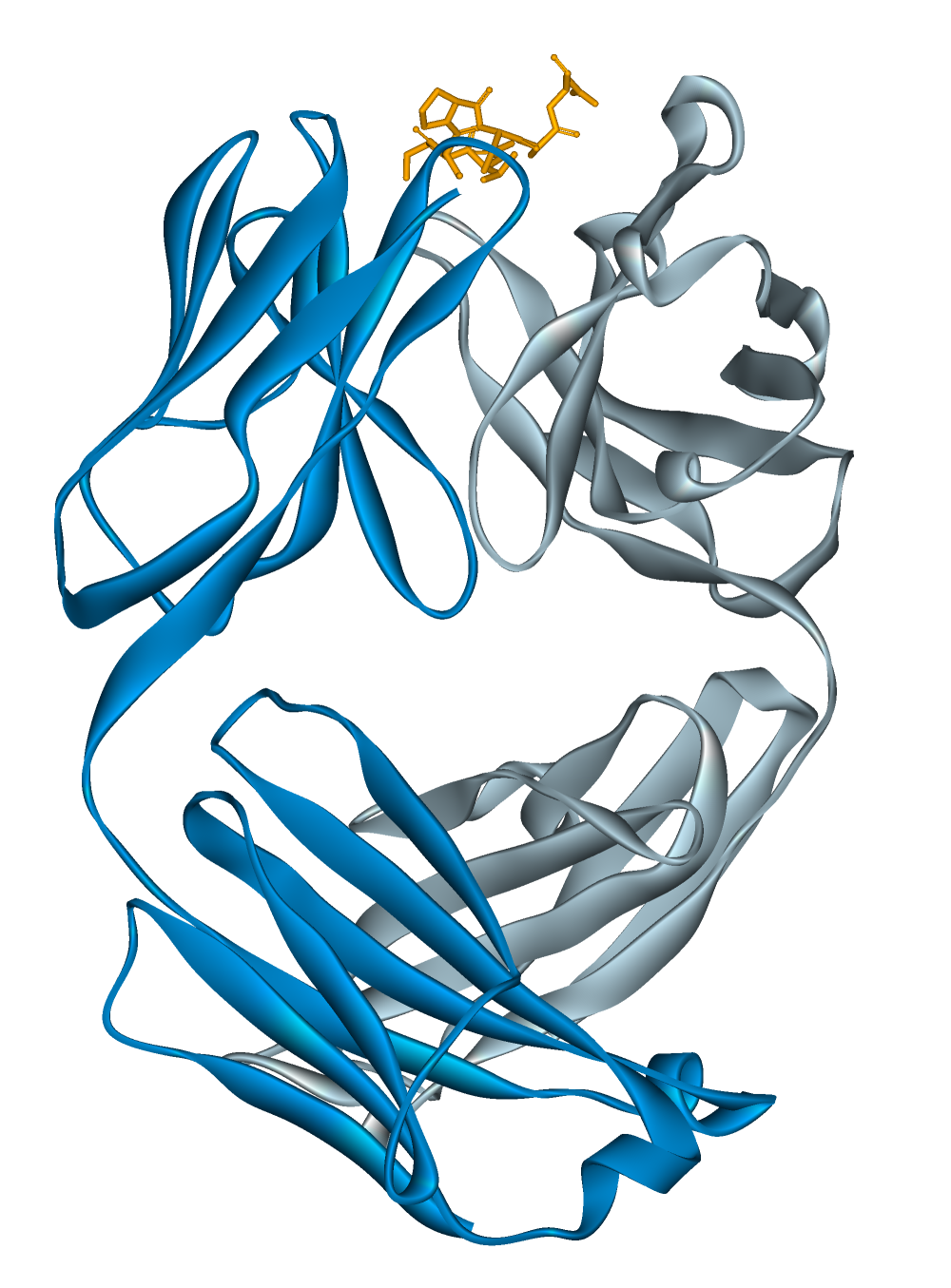 Ribbon diagram of the Fab fragment of alemtuzumab, a monoclonal antibody, bound to a small synthetic antigen. Created using Accelrys DS Visualizer Pro 1.6 and GIMP. Legend Heavy chain Light chain Antigen